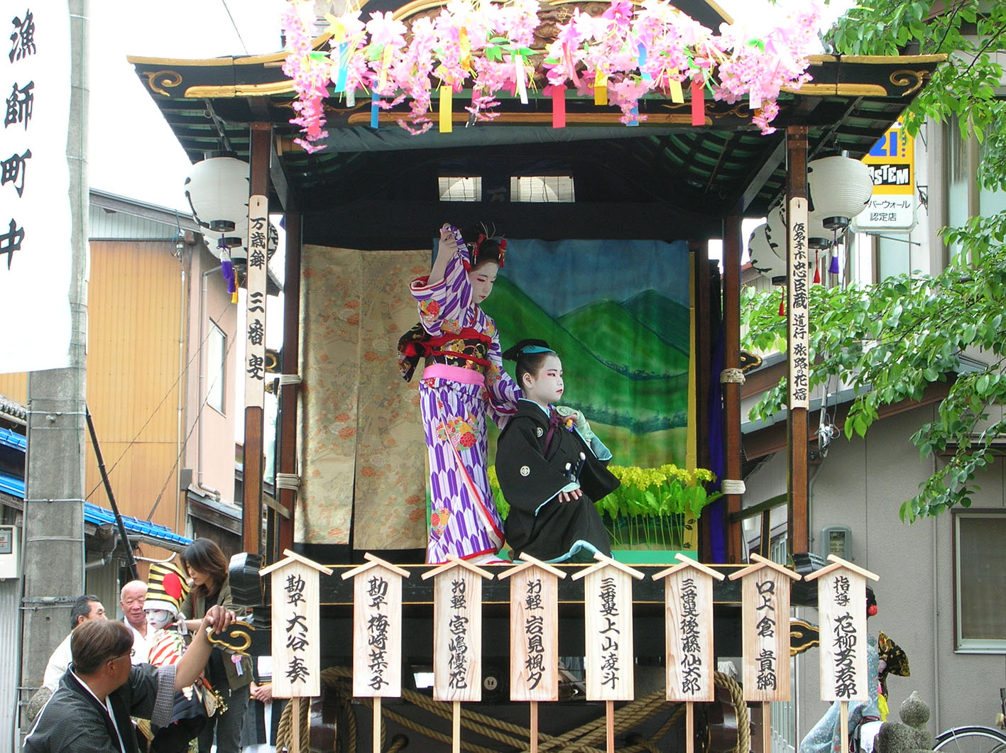 Ｍanzaihoko Miyazu Sannogu-Hiyishi shrine,Sannoumatsuri,Miyazu,Kyoto,Japan.